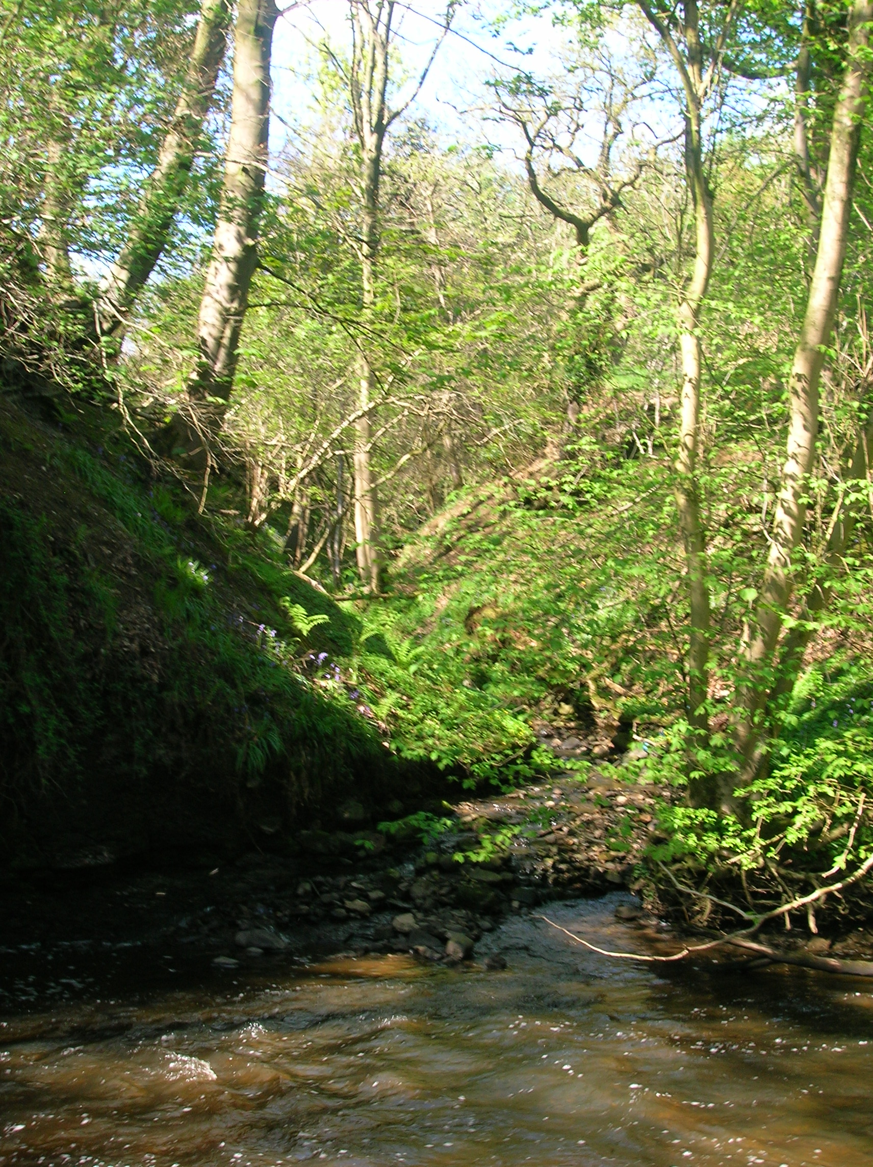 The Cowlinn Burn from Clonbeith joining the Lugton Water at Montgreenan old Castle, North Ayrshire, Scotland.